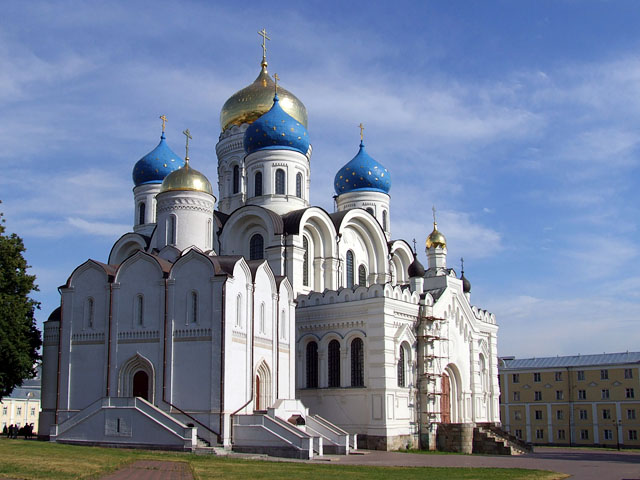 Nikolo-Ugresh monastery